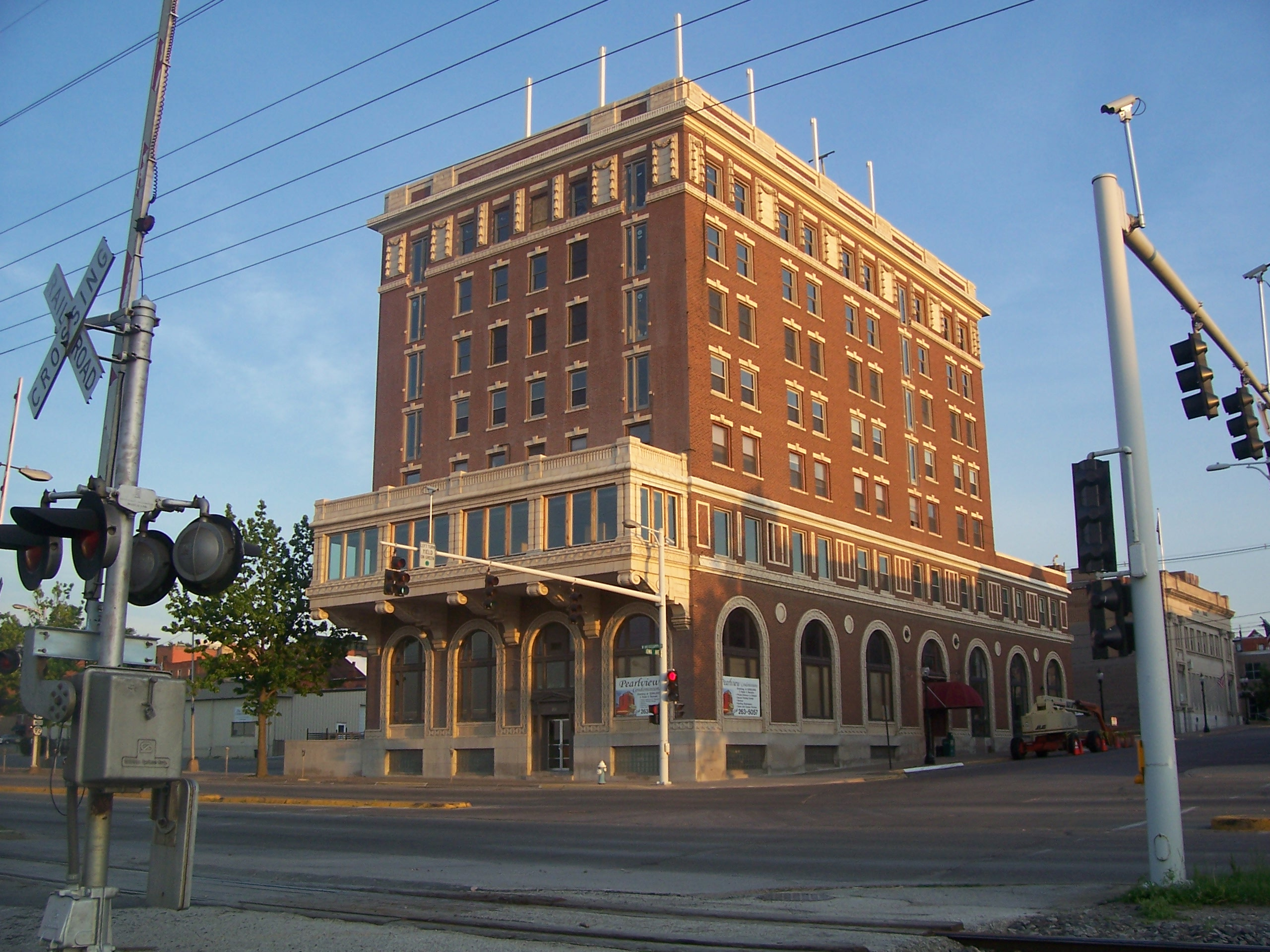 The former Hotel Muscatine has been under construction. New changes include a Martini bar, Thai restaurant, and condos including a penthouse. The construction has been controversial because opposers state that it will ruin the history of the building.